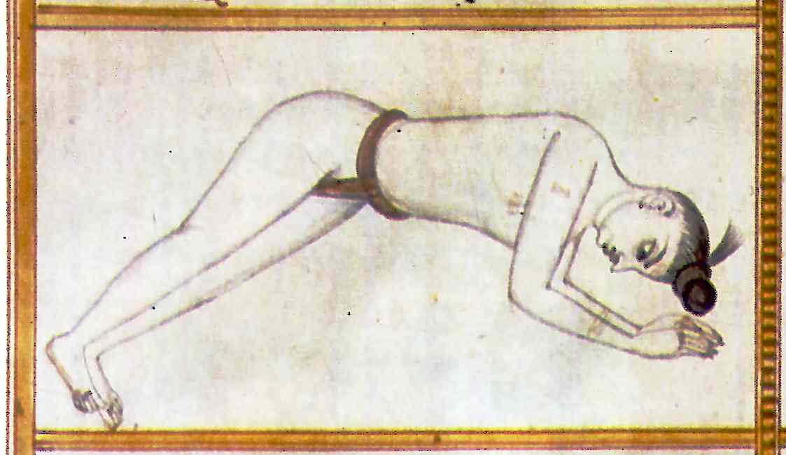 The yoga pose Gajasana, hand-drawn illustration in Sritattvanidhi, 19th century Mysore Palace manuscript